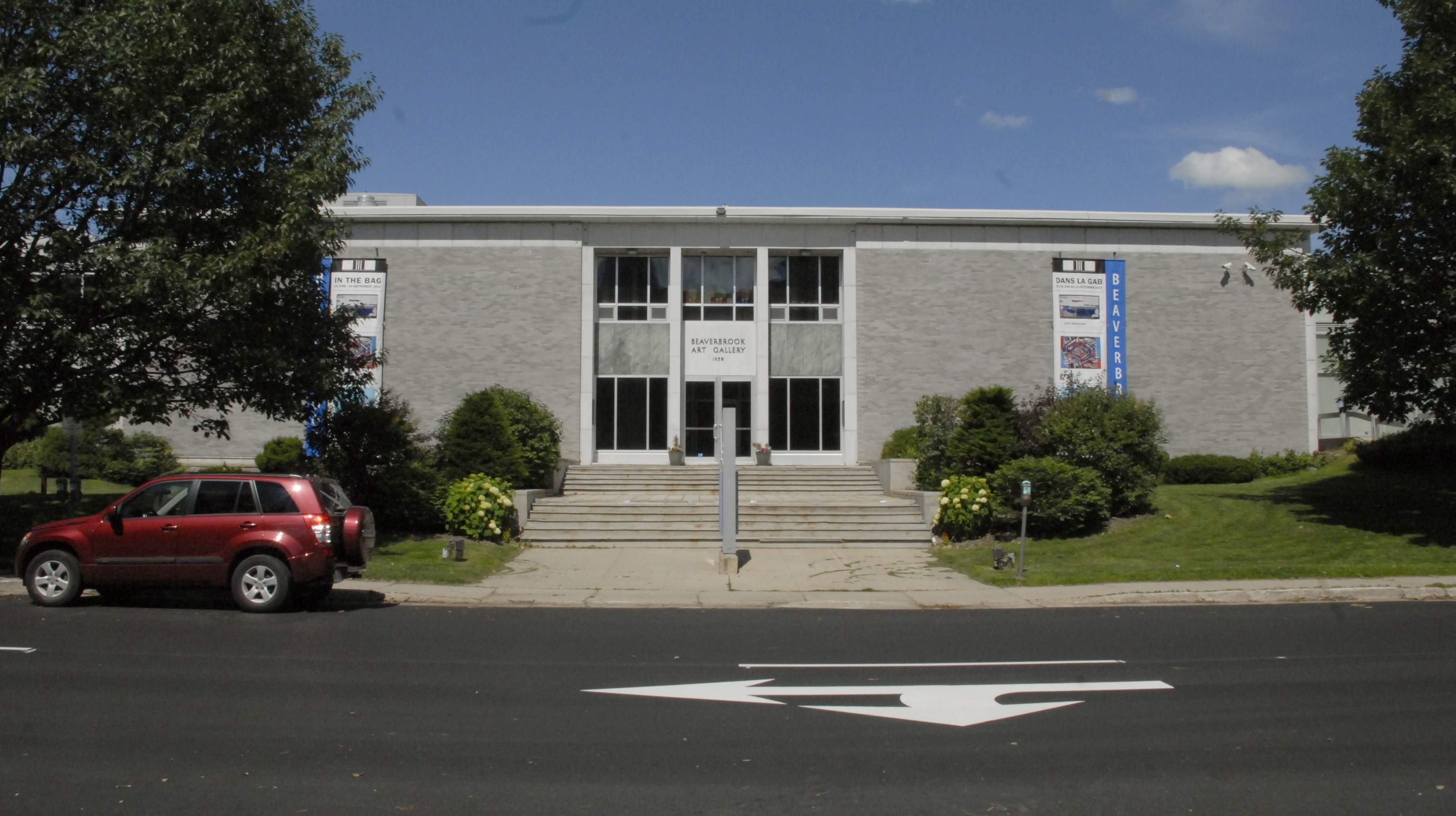 Beaverbrook Art Gallery, Fredericton NB